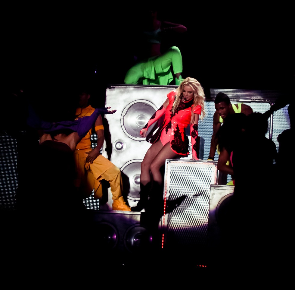 Britney Spears performing "Big Fat Bass" at 2011's Femme Fatale Tour live in Ukraine.